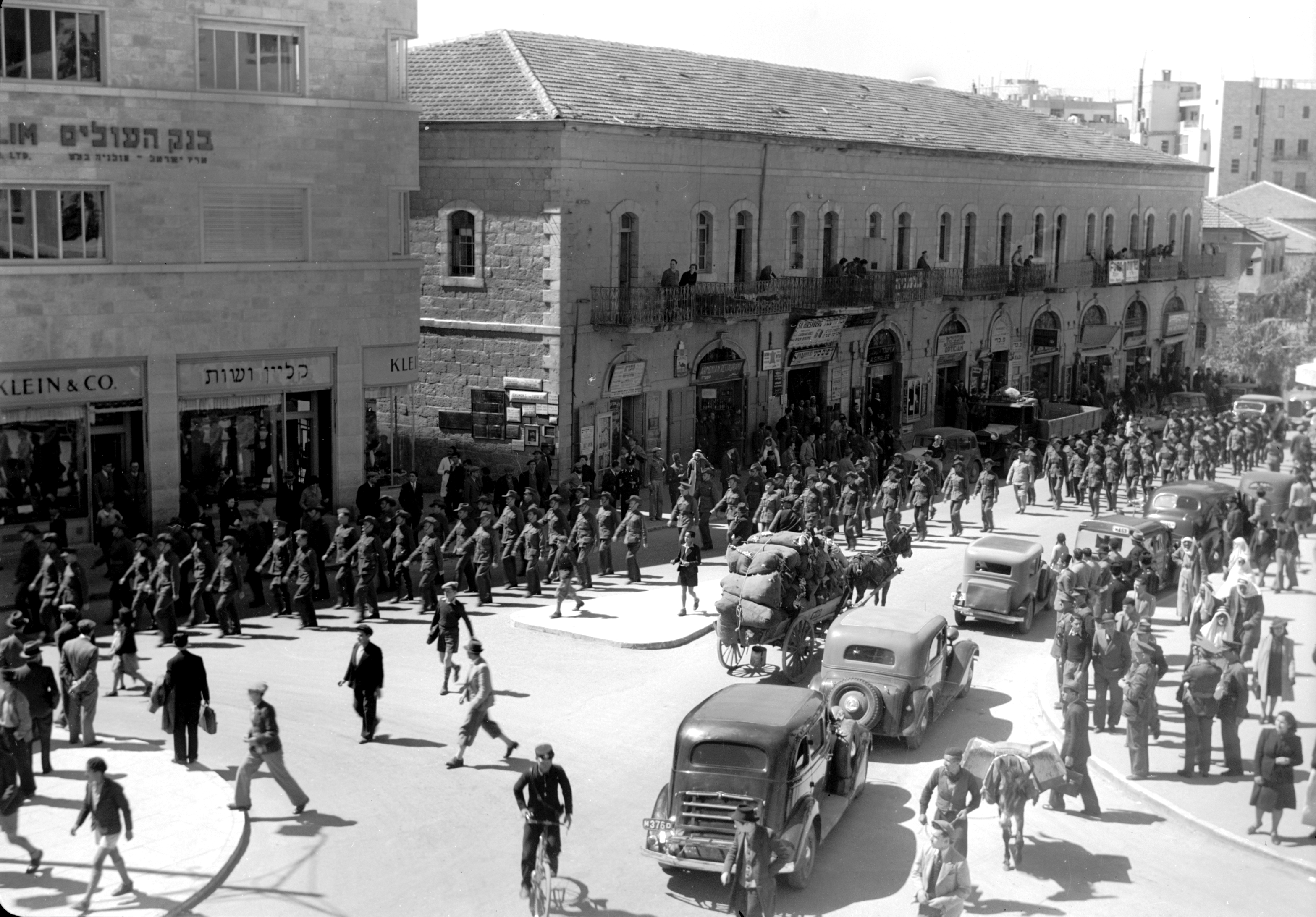 The Australian soldiers parade marching down Jaffa Road.